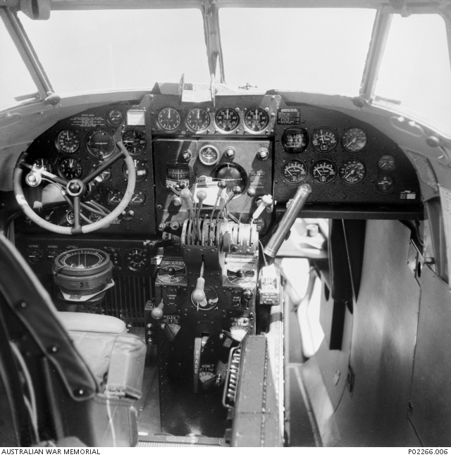 Kota Bharu, Malaya. 1941. Interior of the cockpit of a RAAF Lockheed Hudson aircraft. The RAAF had two General Reconnaissance Squadrons flying Hudson aircraft in Malaya. No. 1 Squadron was stationed at RAF Kota Bharu, No. 8 Squadron was stationed at RAF Kuantan. The Squadrons were forced to retreat, along with the allied forces, in the face of the Japanese attack.